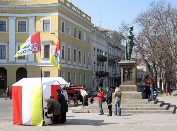 "I speak Russian" action in Odesa, Ukraine (2007).